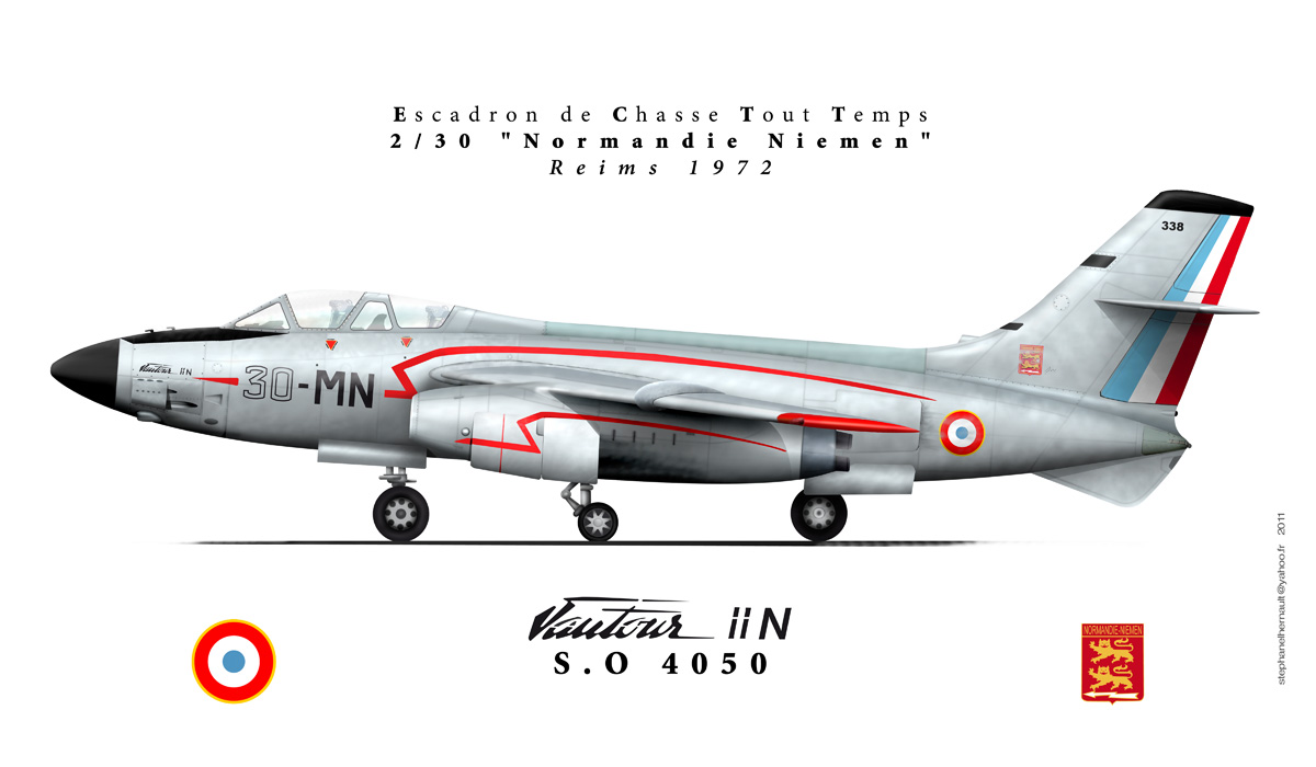 SNCASO 4050 VAUTOUR N 2/30"Normandie Niemen" all weather squadron Armée de l' air 1972